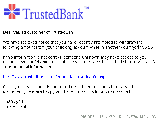 What a typical "phishing" e-mail may look like. The bank here is fictional, but it is to be assumed that a real phishing attempt would claim to be from an actual bank the customer belongs to. Notice how it tries to establish authenticity by using the bank's logo and providing what appears to be link to a website the customer has been to many times before. This mock-up was created by me on December 2, 2005 and placed in the public domain. Note the effect achieved by not using "i before e, except after c", thus misspelling the word "received".